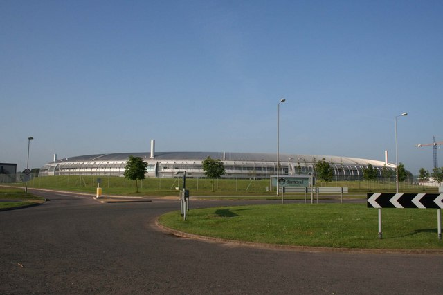 Diamond Light Source Impressive; at least I think so.